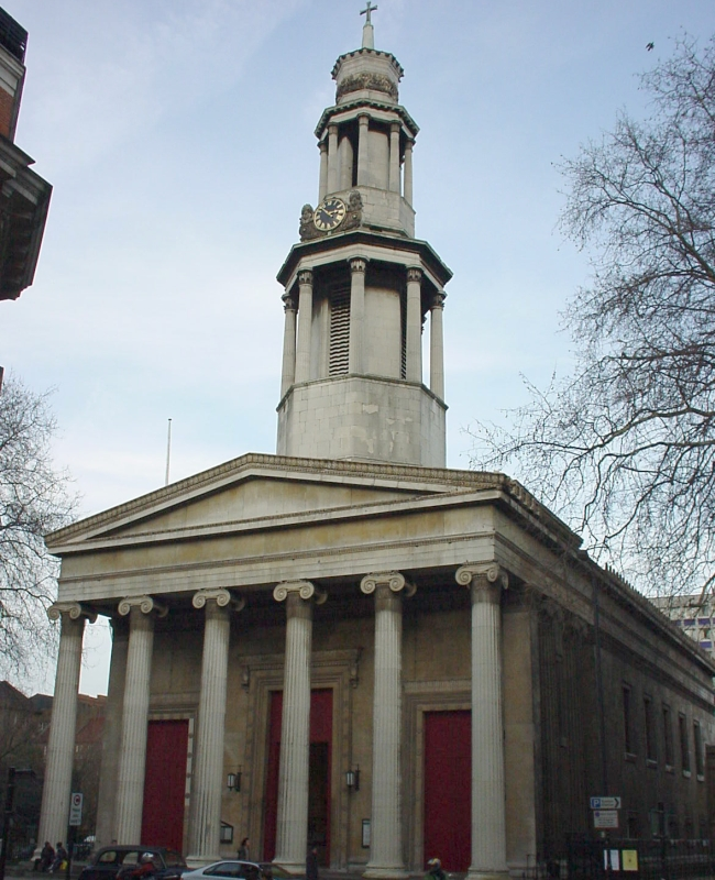 St Pancras New Church,Euston Road, London